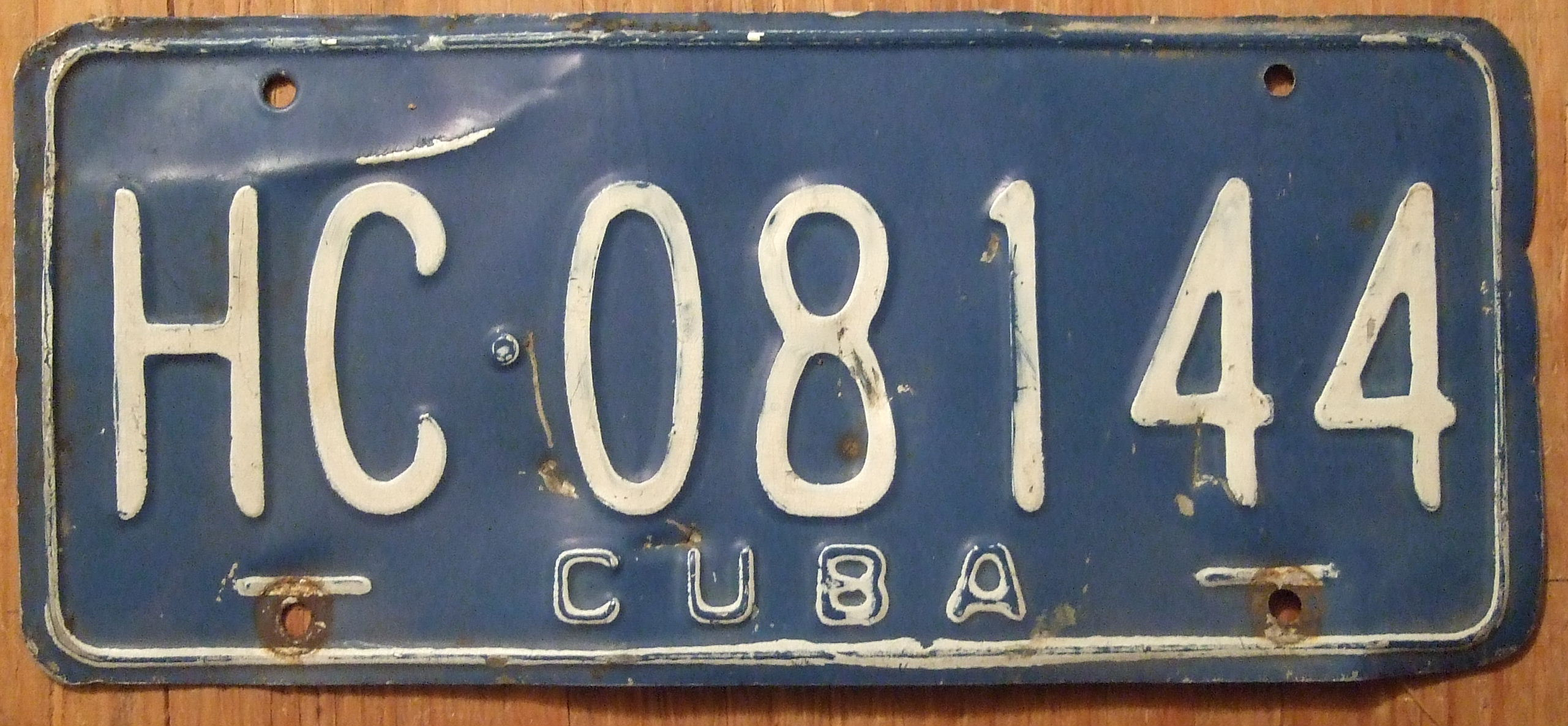 This white on blue Cuban plate was issued first in 1978 in Havana as denoted by the "H" as the first letter in the two letter prefix. The second letter "C" dentoes this plate was issued to a van.